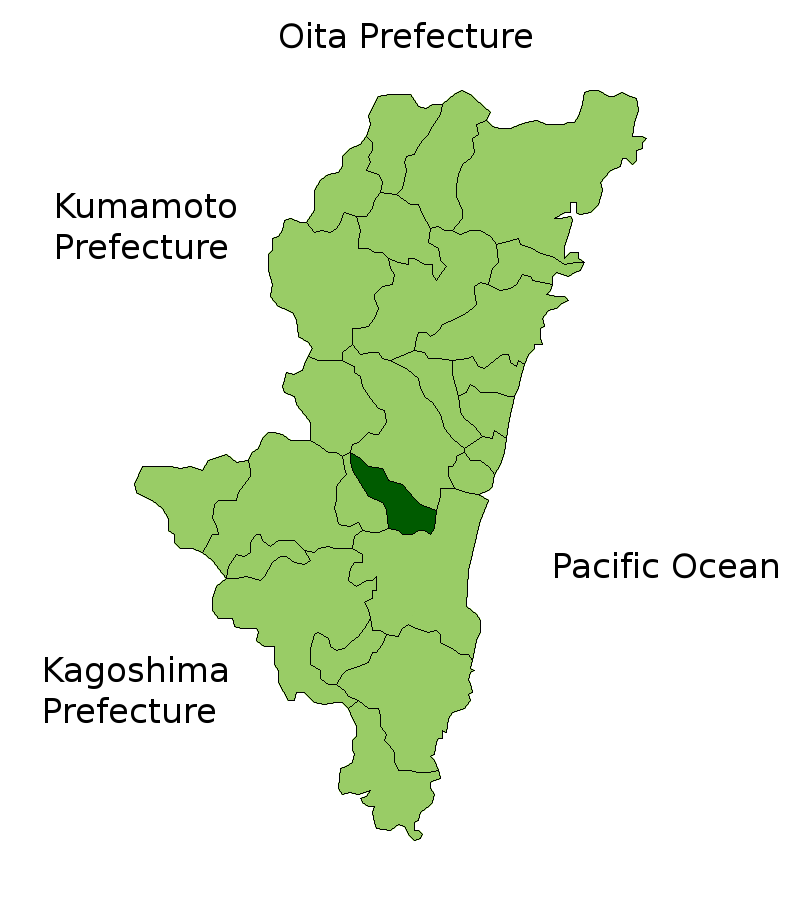 Location Map of Kunitomi in Miyazaki Prefecture, Japan